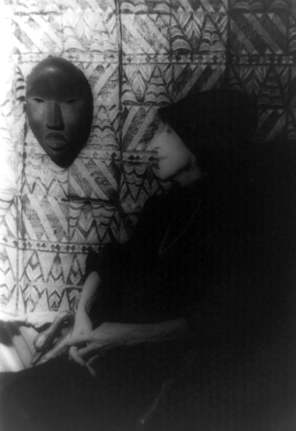 Portrait of Isak Dinesen (Baroness Karen Blixen) looking at African mask and textile on wall, 1959 Jan. 29.